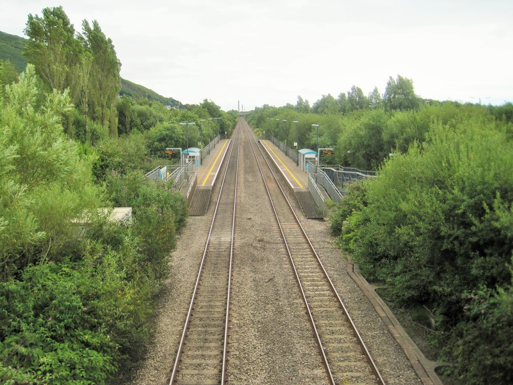 Baglan railway station Opened in 1996 by British Rail on the line from Cardiff to Swansea. View south east towards Port Talbot and Cardiff.